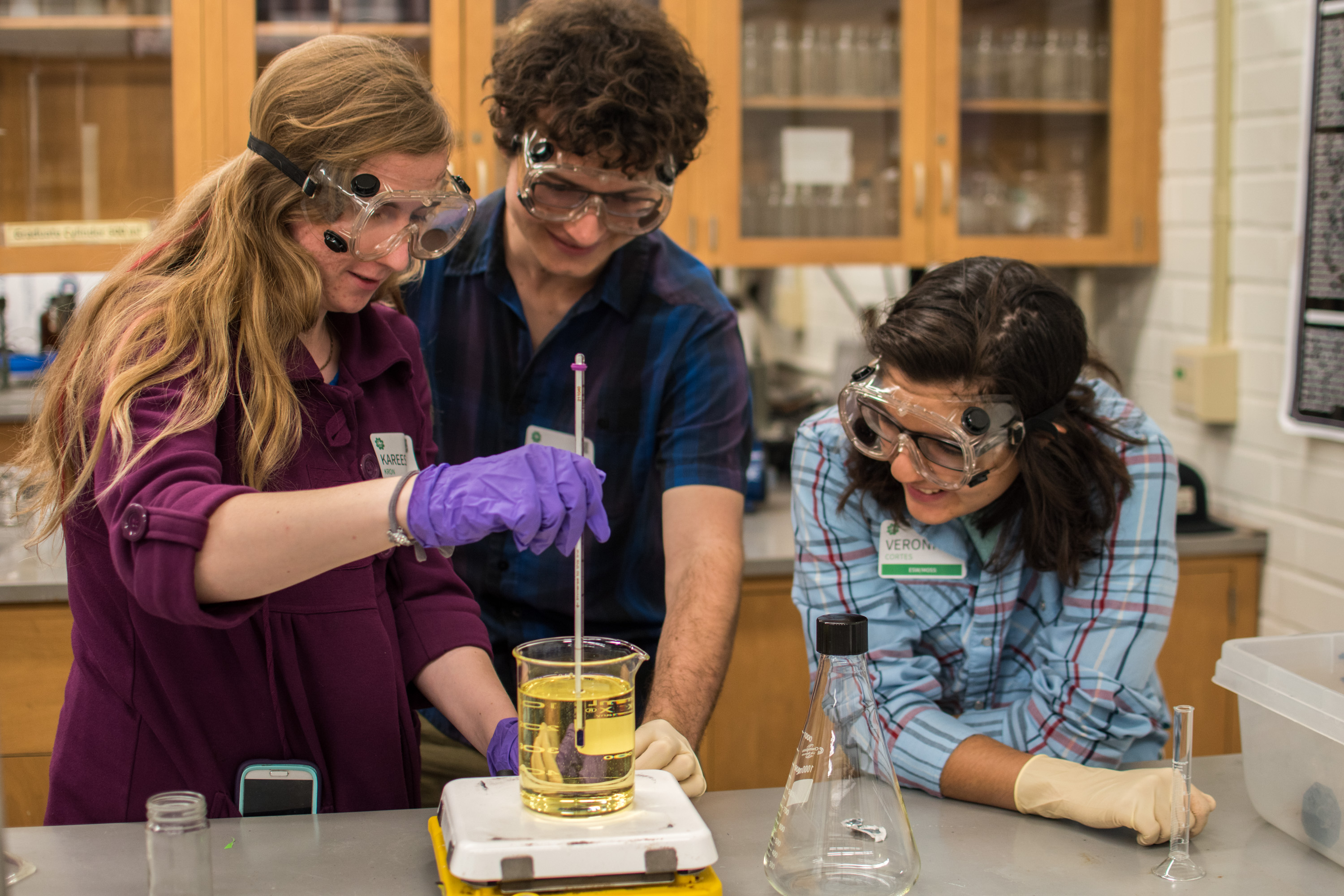 Student members at the CSU Long Beach regional conference in 2016.